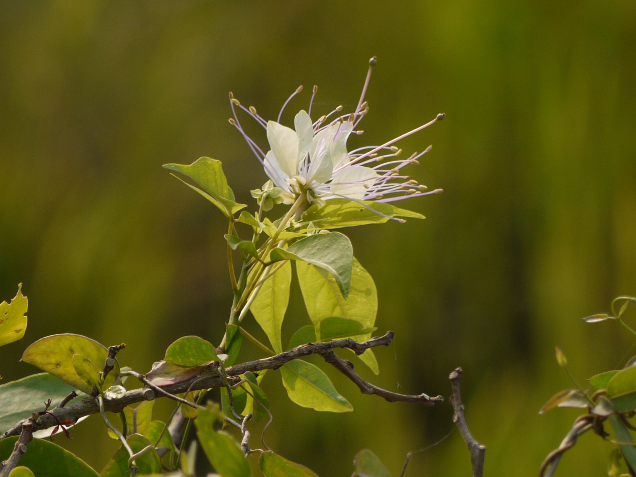 Capparaceae (caper family) » Crateva religiosa KRAY-tev-a -- named for Kratevas, Greek herbalist, renowned for his skill in poisoning re-lij-ee-OH-suh -- meaning, sacred commonly known as: garlic pear, obtuse leaf crateva, spider tree, temple plant, three-leaf caper • Bengali: বরুণ baruna • Hindi: बर्ना barna, बर्नी barni • Kannada: nirvala • Malayalam: nir mathalam • Manipuri: loiyumba lei • Marathi: बिल्व bilwa, वरुण varun, वायवरणा vaywaran • Sanskrit: वरण varan, वरुण varun • Tamil: மாவிலிங்கம் marvilingam • Telugu: ఉలిమిడి ulimidi, వరుణ varuna, voolemara Origin: Southeast Asia, Japan, Australia, south Pacific islands References: Flowers of India • Dave's Garden • EcoPort • Wikipedia